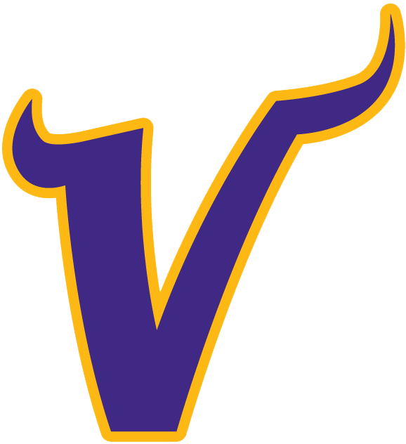 Minnesota Vikings alternative logo since 1998.